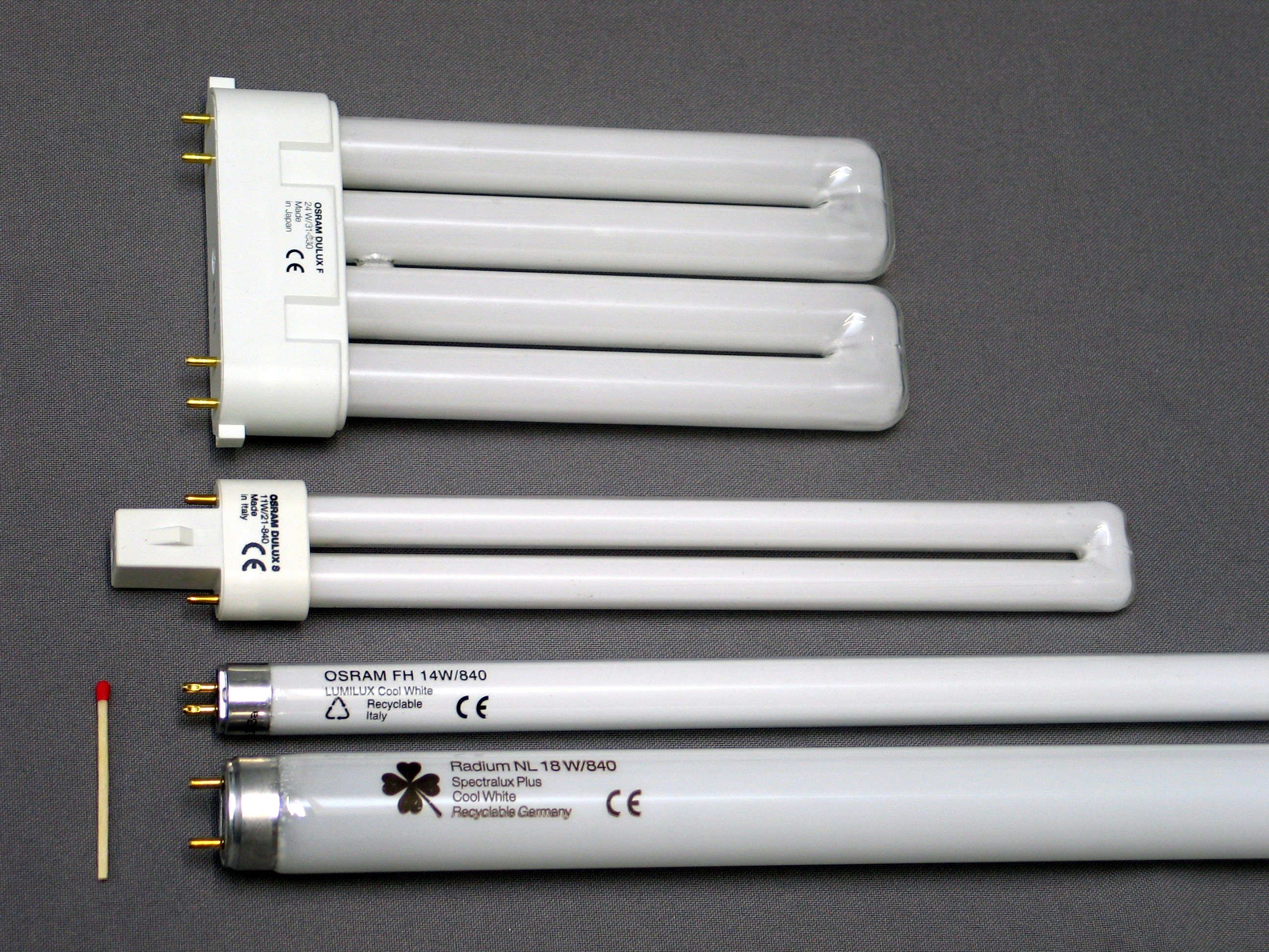 Various fluorescent light bulbs